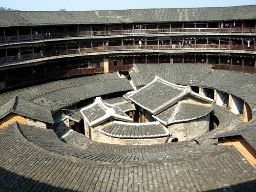 Earth_building chengqi lou